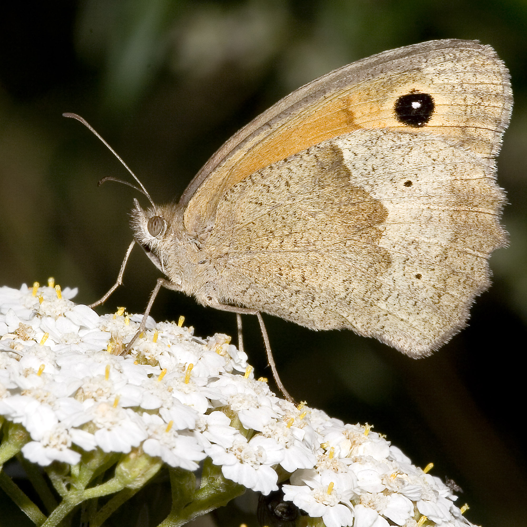 Please report references to .